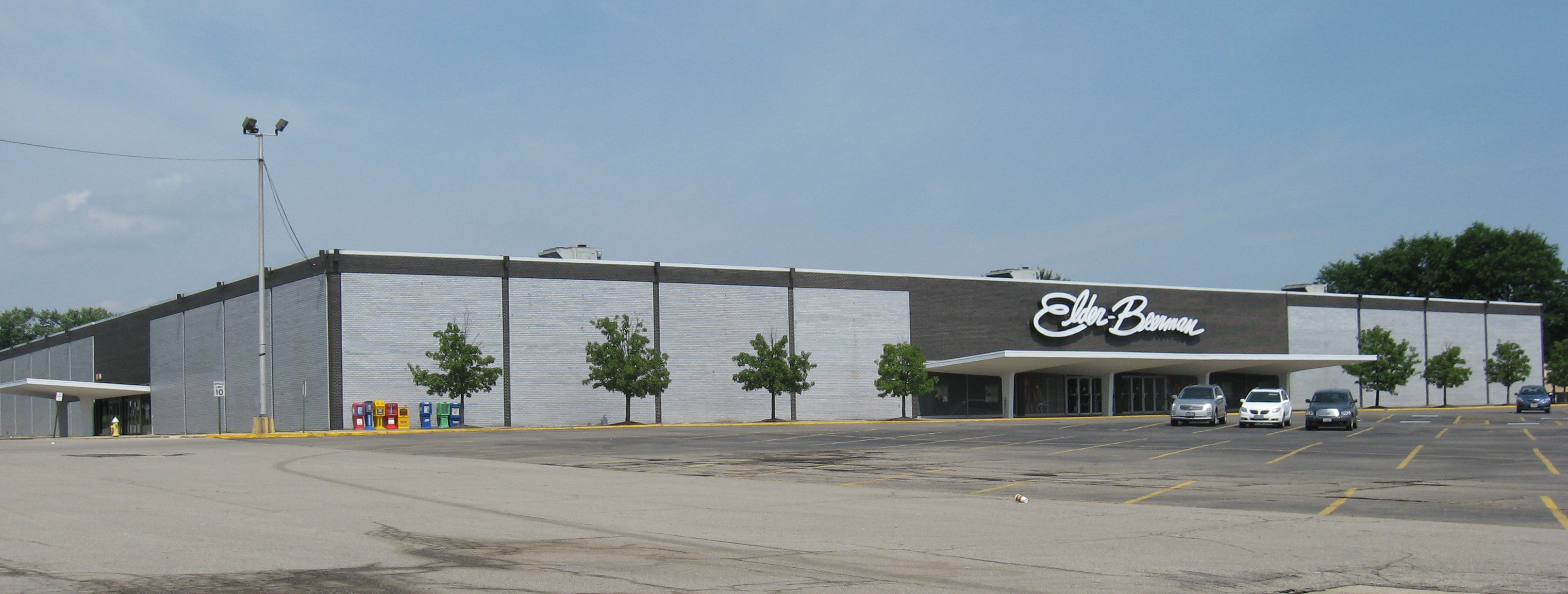 Elder-Beerman location (Centerville, Ohio, USA). (This store no longer exists. It was demolished and a Kroger Store stands in its place.)